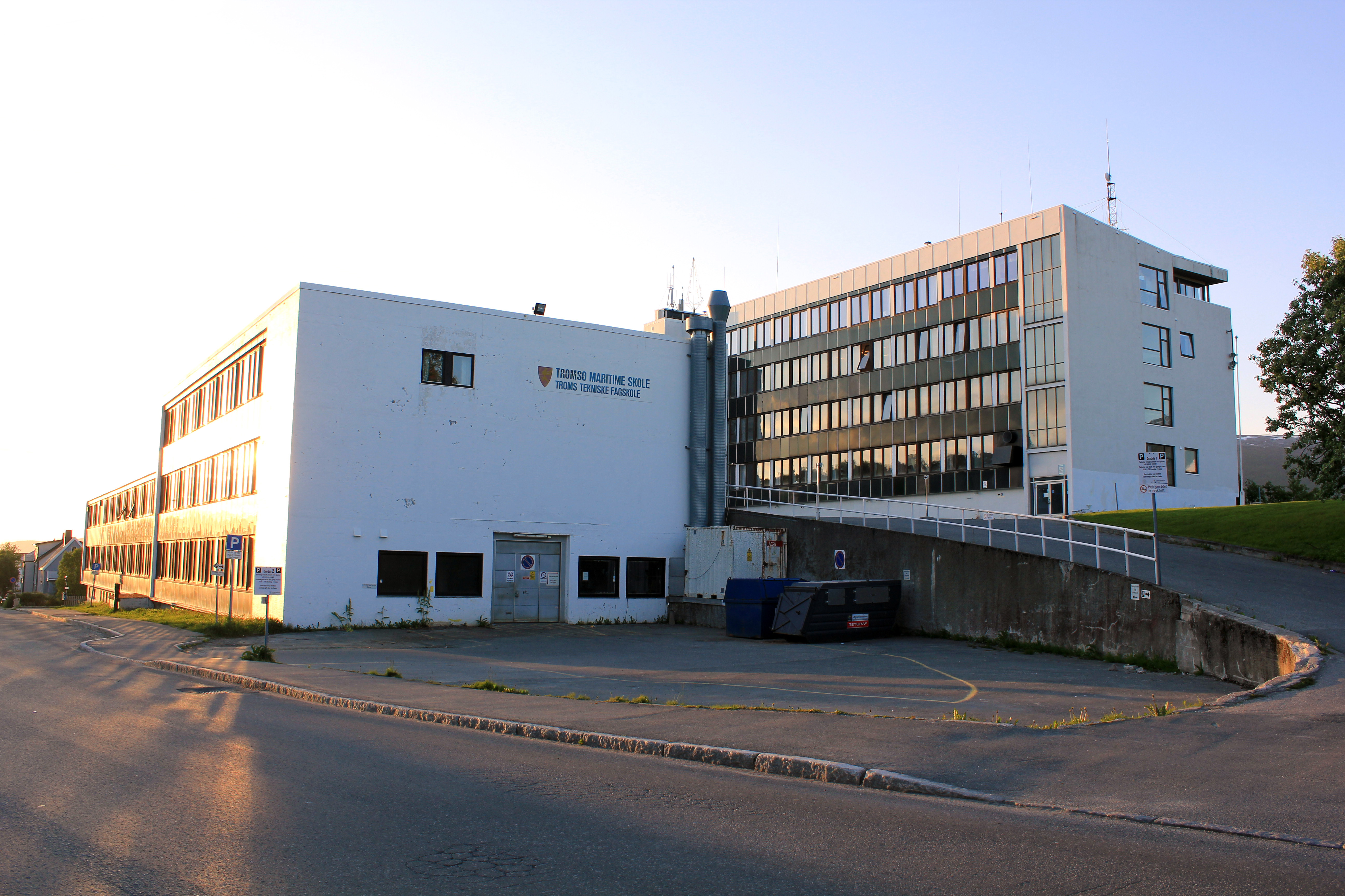 Tromsø maritime upper secondary school and vocational school, in Tromsø, Norway